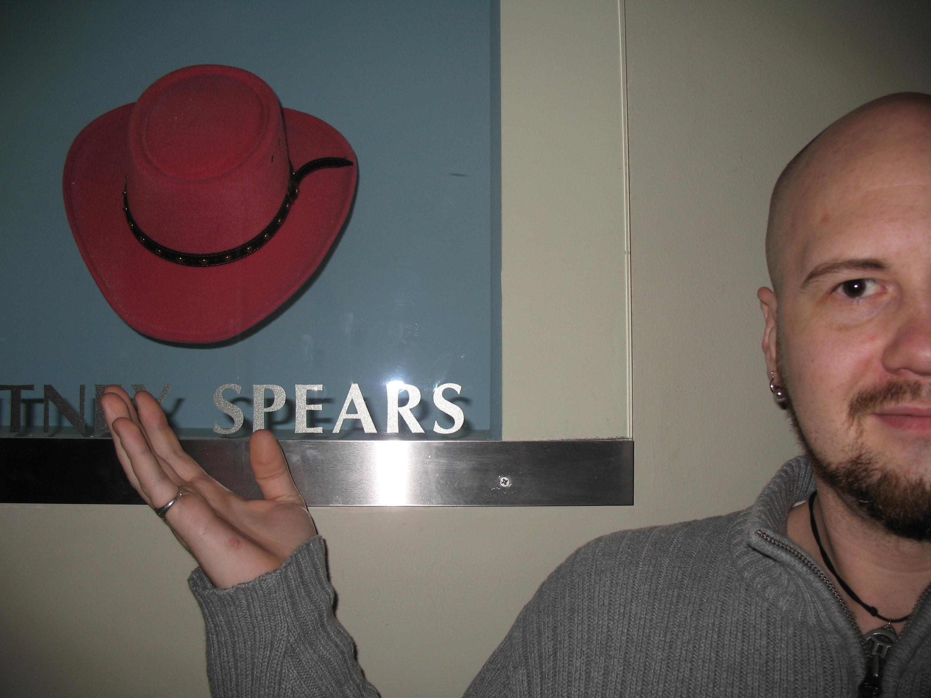 Me and Britney Spears's pink cowboy hat at the Hard Rock Cafe in Chicago.